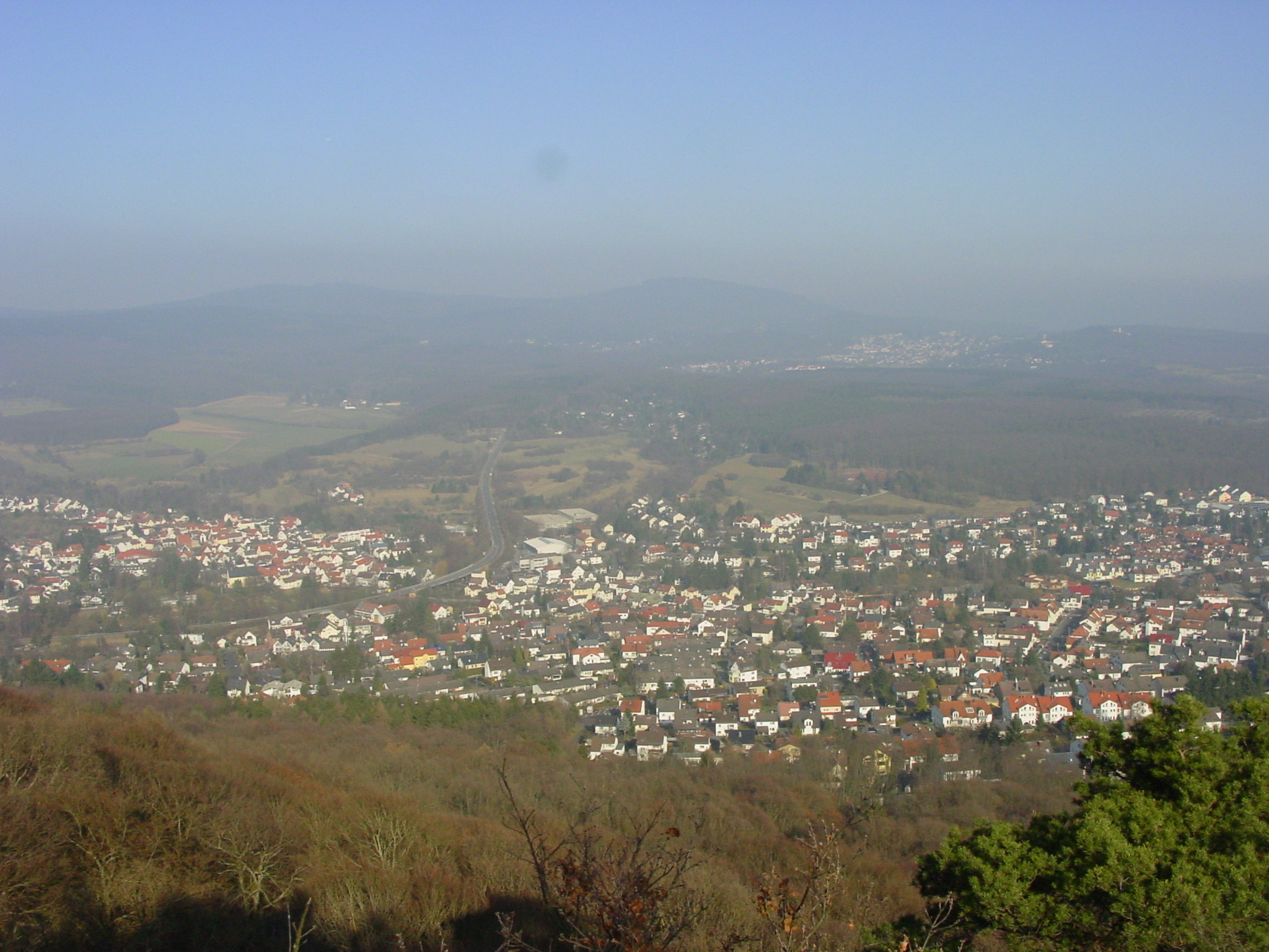 View on Fischbach from view point "Großer Mannstein".